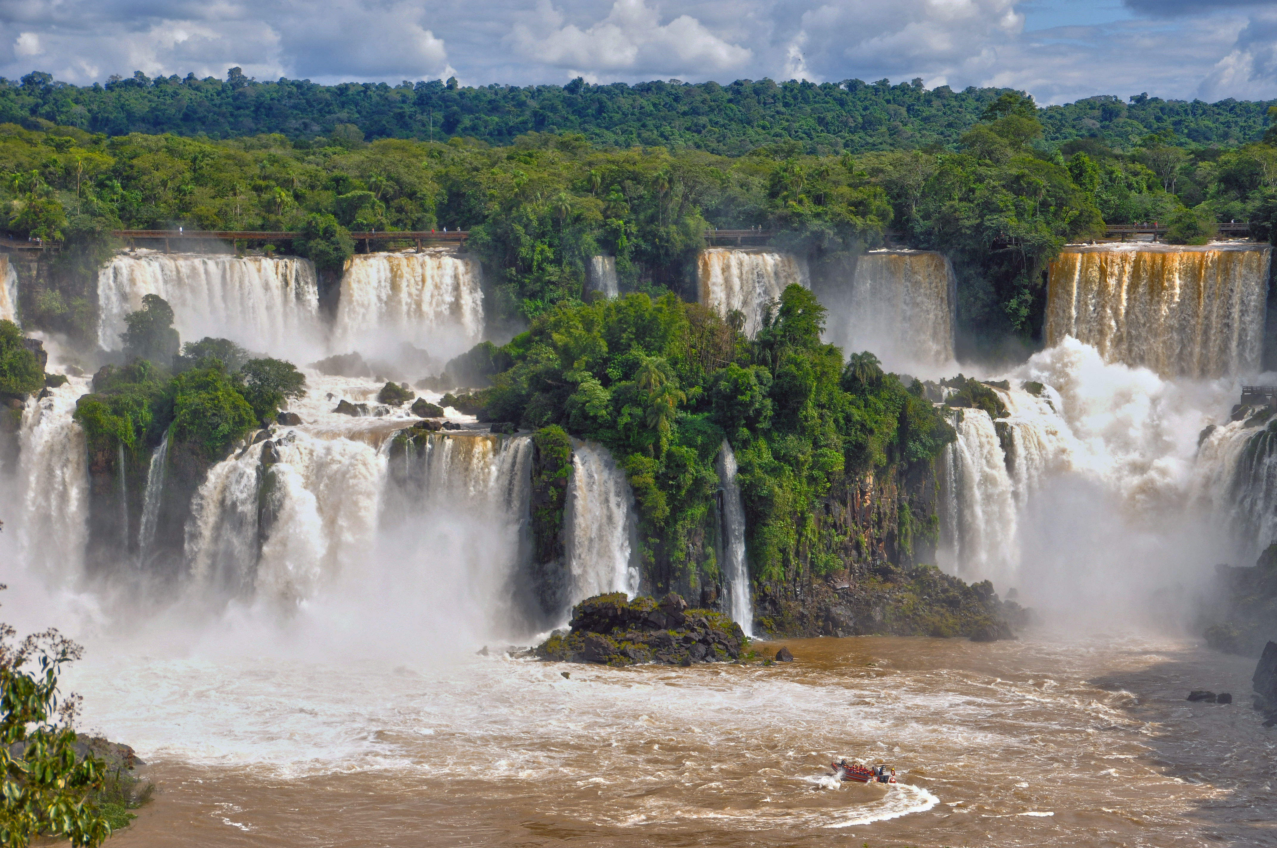 Iguazu Falls Brazil Argentina 2010 June